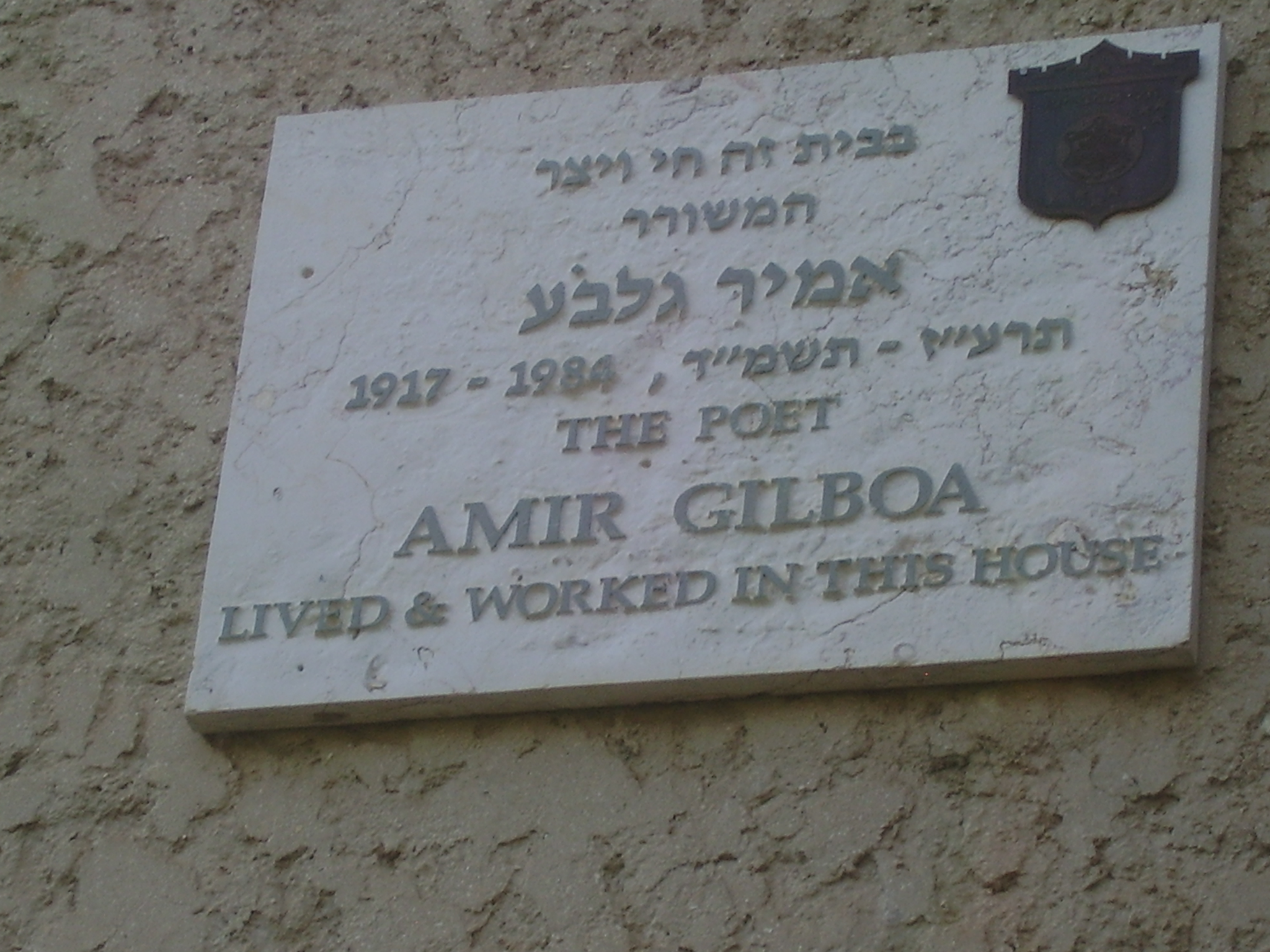 memorial plaque to the poet amir gilboa in tel aviv לוחית זיכרון על ביתו של אמיר גלבוע ברחוב קרני 12 בתל אביב